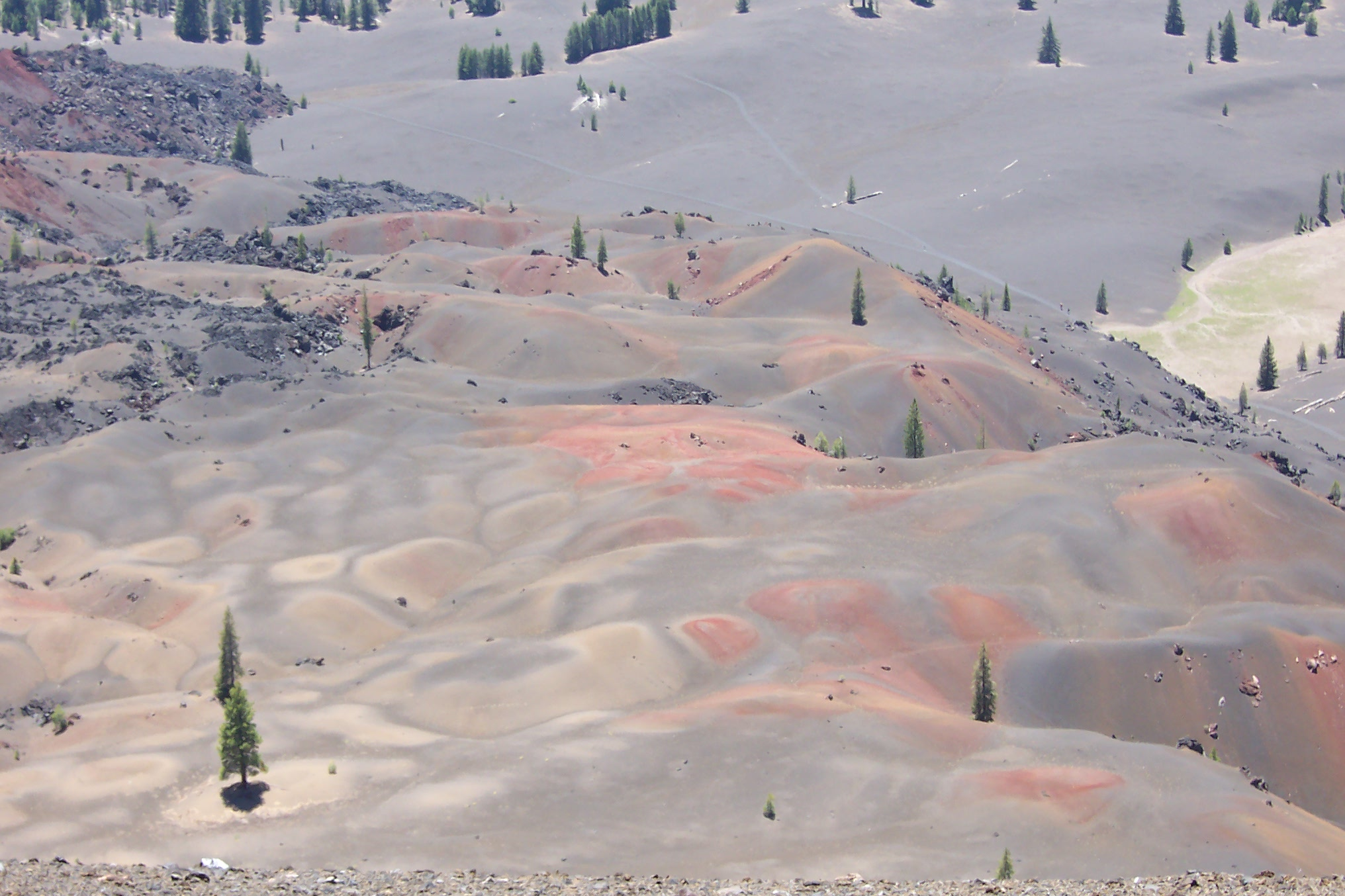 Painted dunes. Viewed from the top of Cinder Cone, Lassen Volcanic National Park, California, USA.